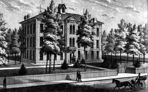 The now-defunct Central Wesleyan College, Warrenton, Missouri. This sketch from 1878.